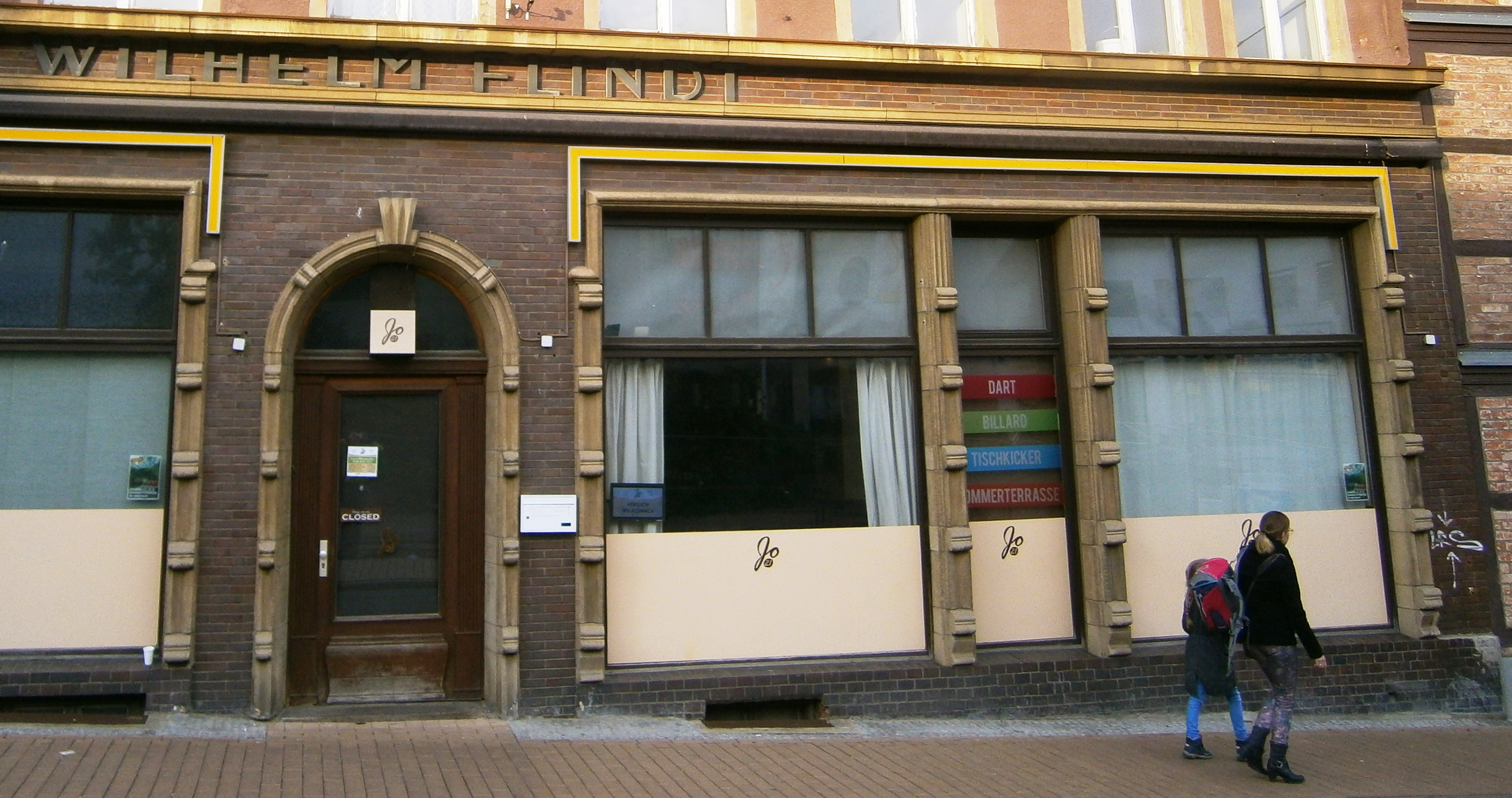 Facade of Wittenburger Strasse 21 is listed. The building is located in Schwerin in Mecklenburg-Vorpommern.